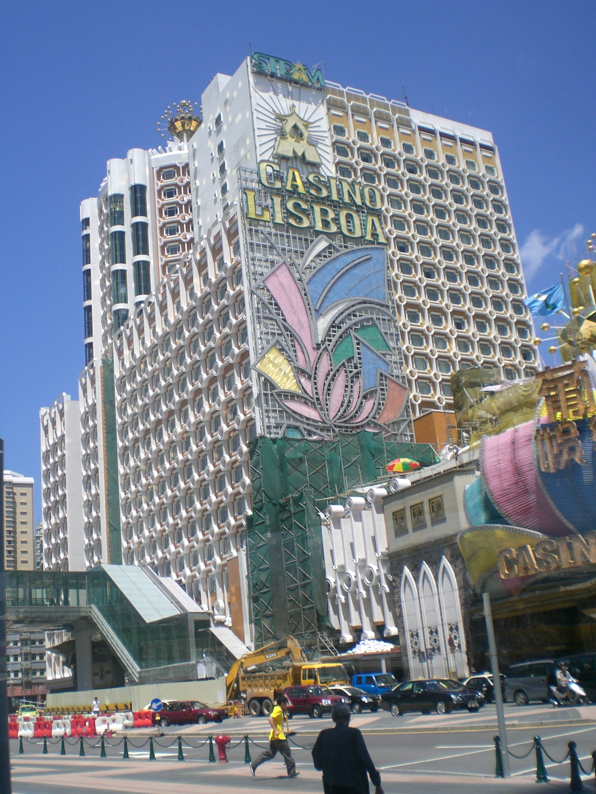 澳門葡京酒店（Hotel Lisboa Macau） Photo author= Mo707